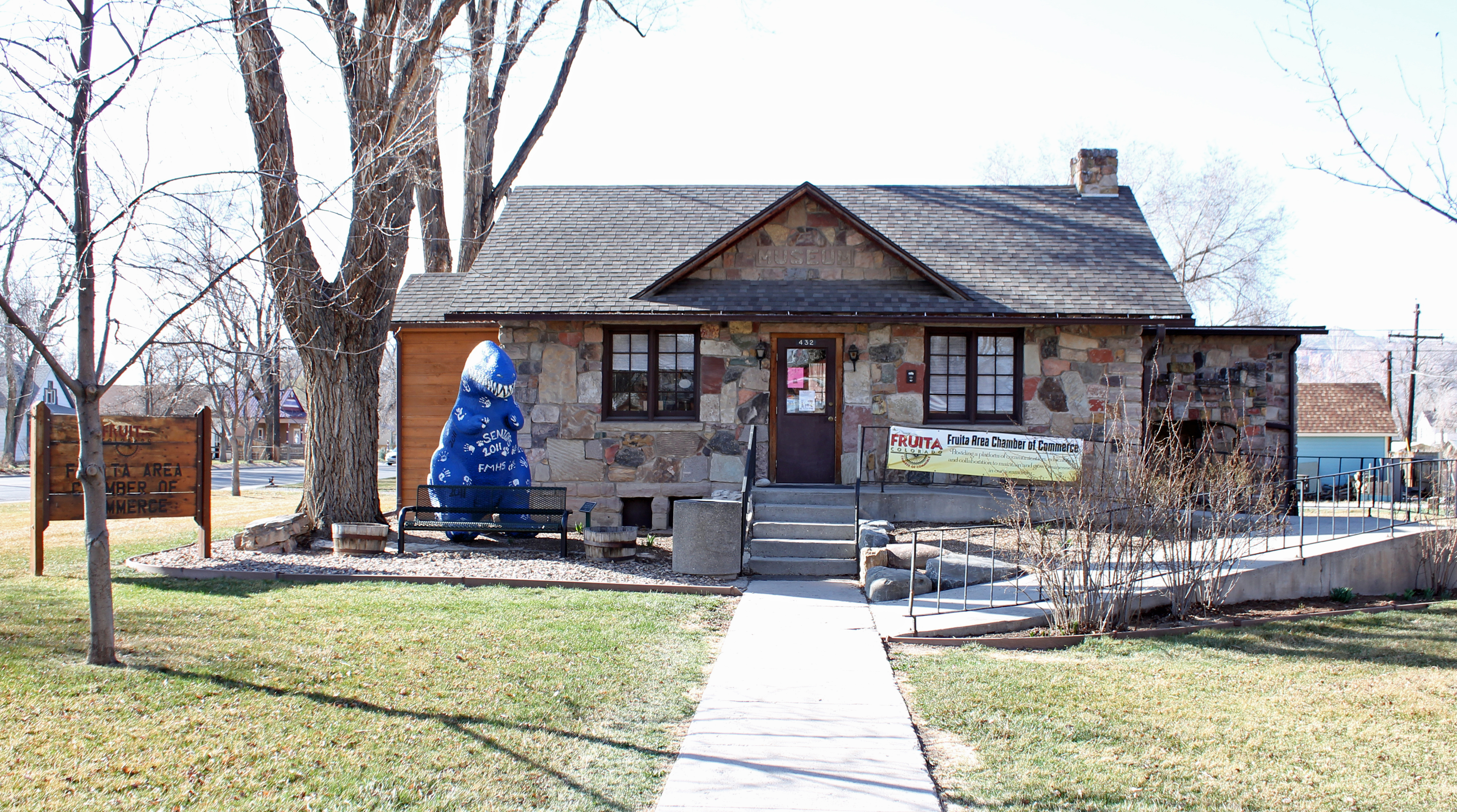 The Fruita Museum, located at 432 East Aspen in Fruita, Colorado. The property is listed on the National Register of Historic Places.